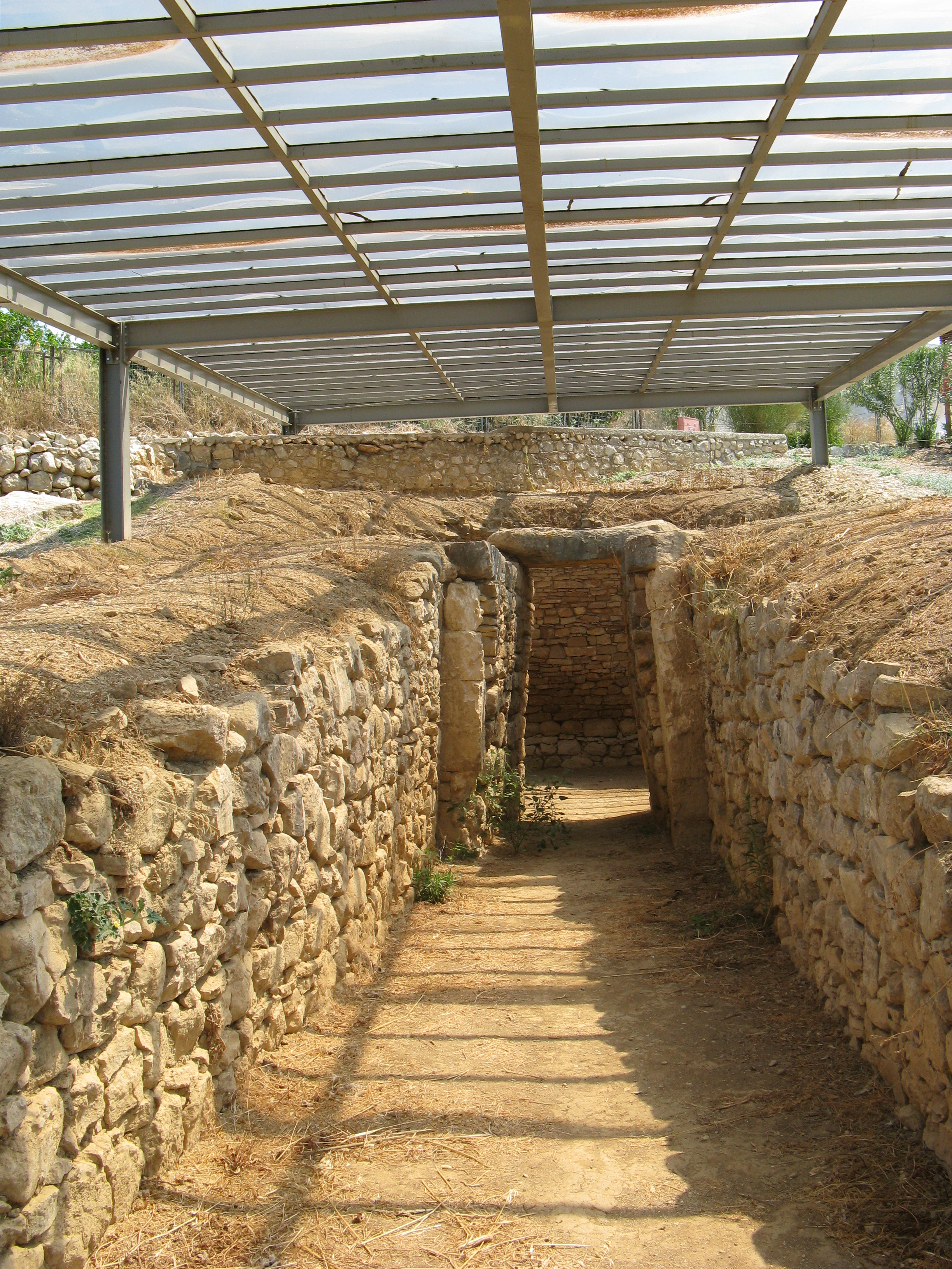 Entrance of tholos tomb of Dendra cementery (Peloponnese-Greece)